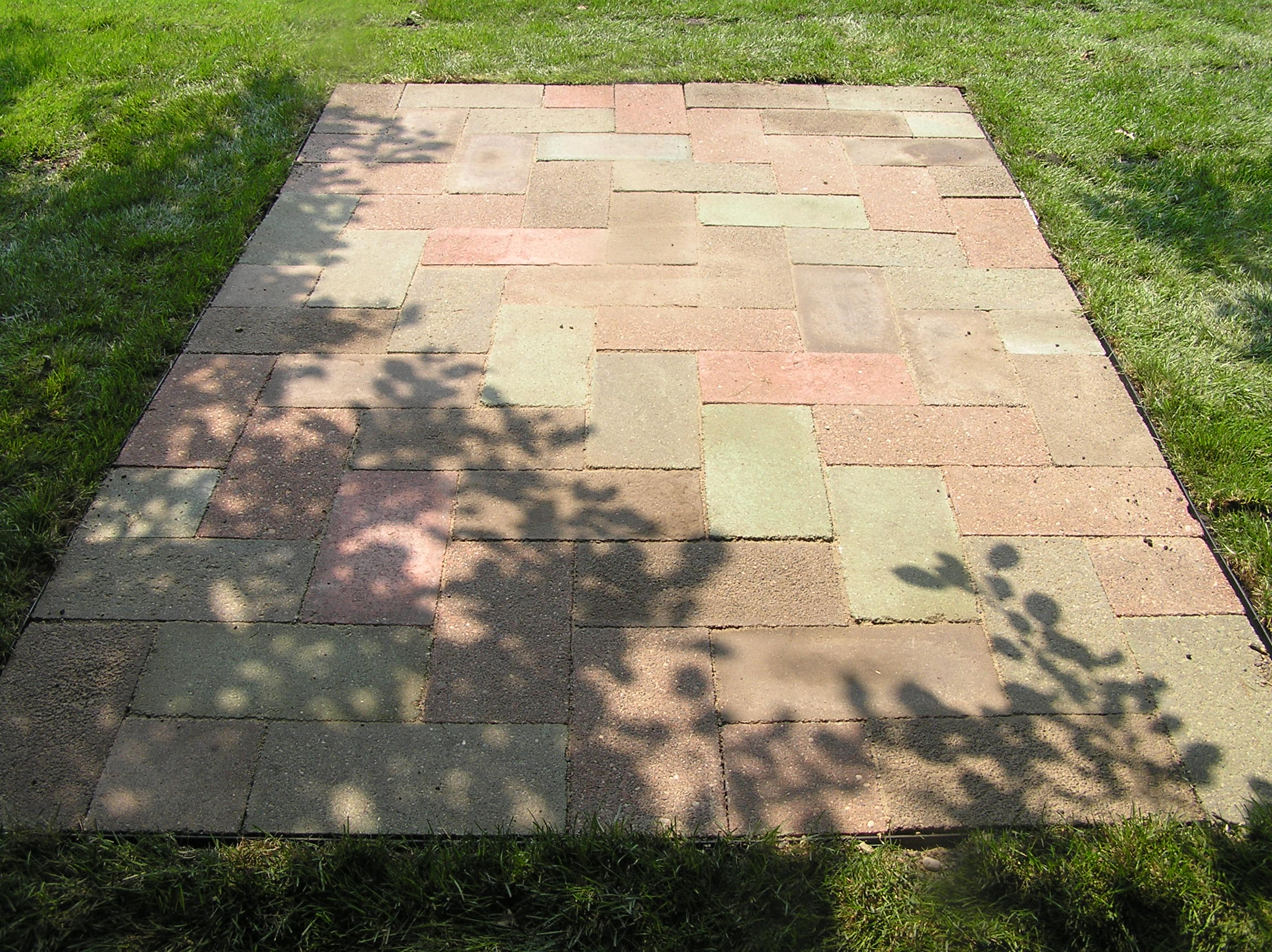 A paver patio built and designed by myself; photo taken by me as well